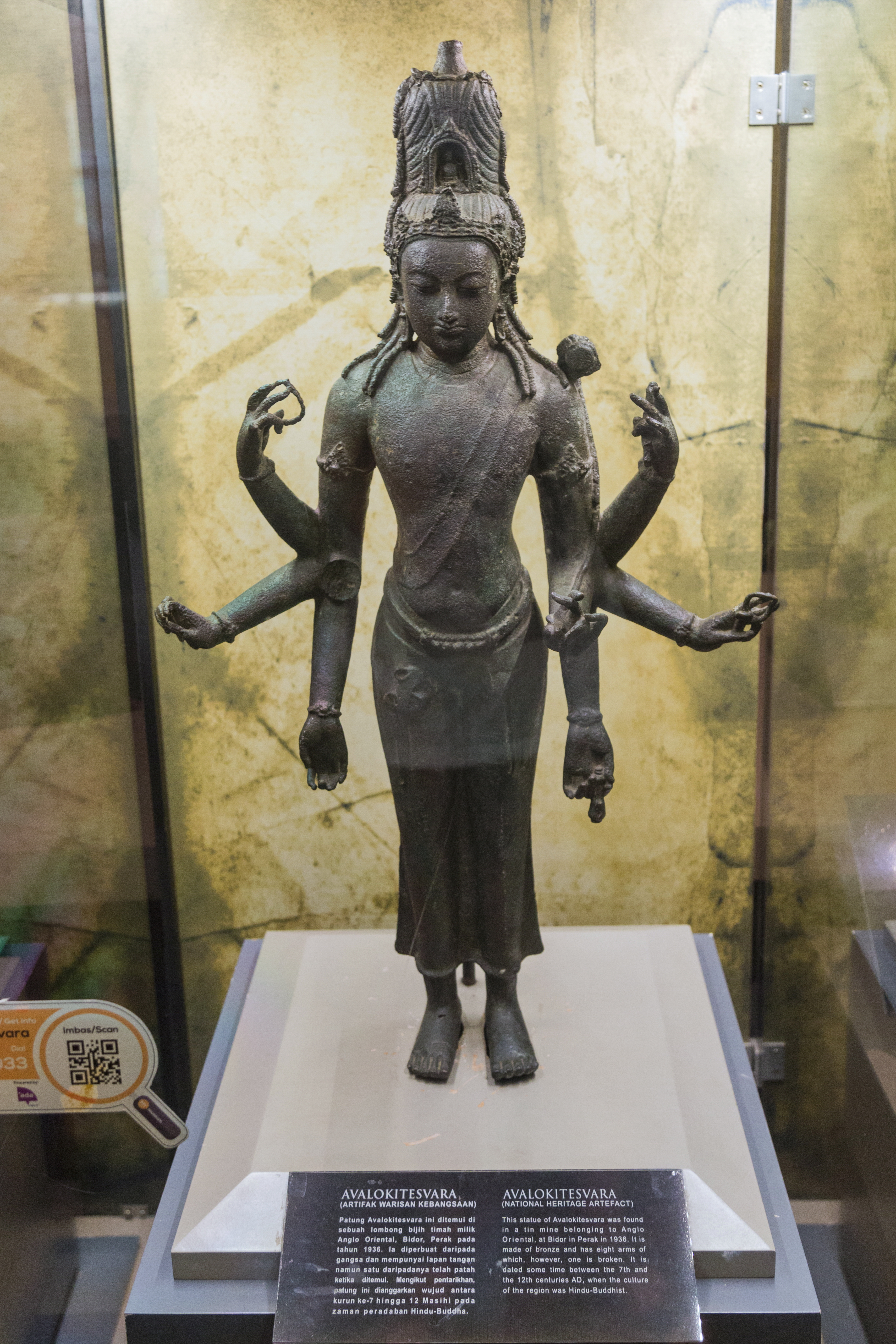 Statue of Avalokiteshvara - found at Bidor in Perak in 1936. National Museum (Muzium Negara). Kuala Lumpur, Malaysia.